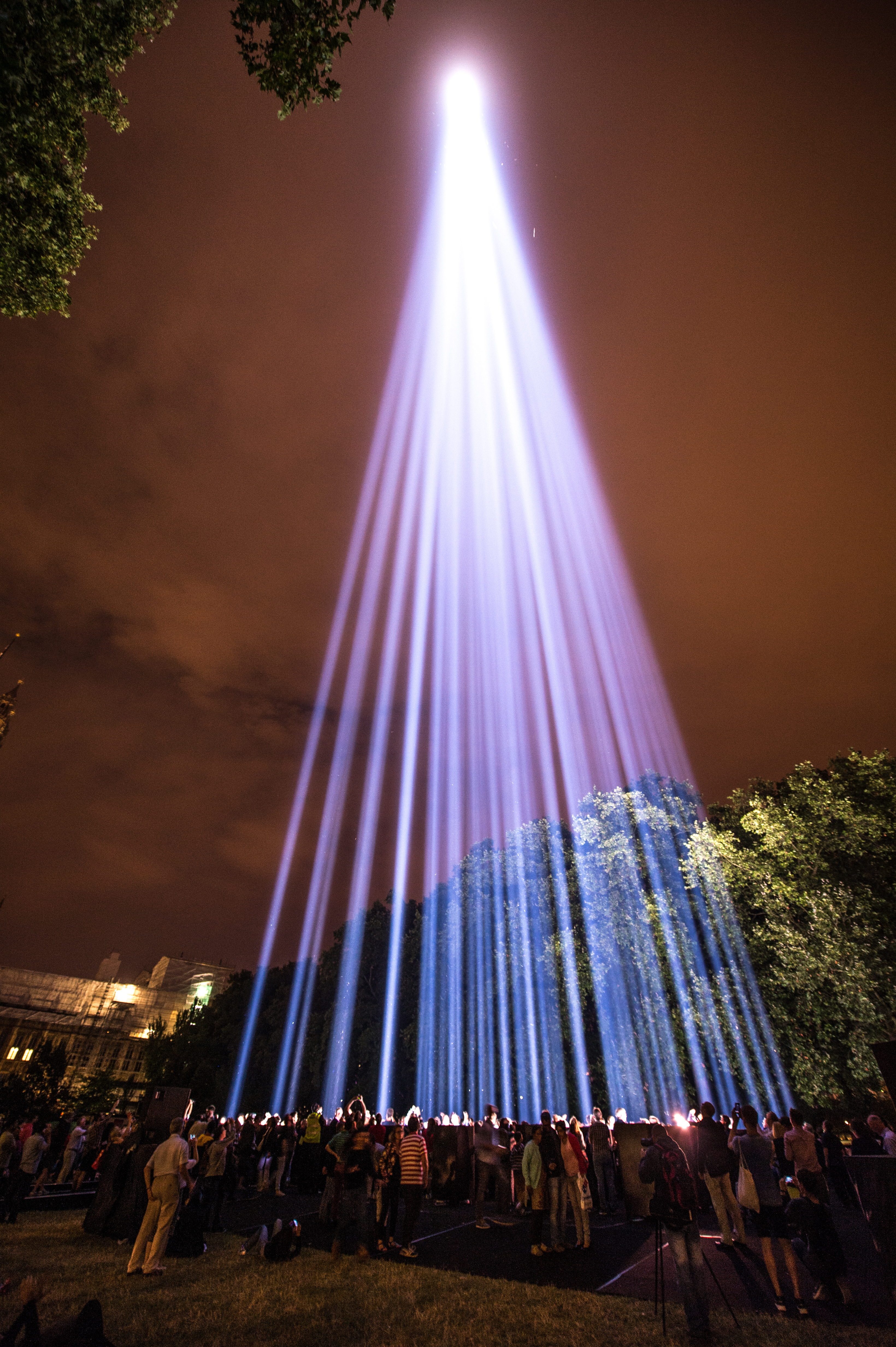 Ryoji Ikeda’s spectra shoots a pillar of light into the London Sky to commemorate the centenary of World War One